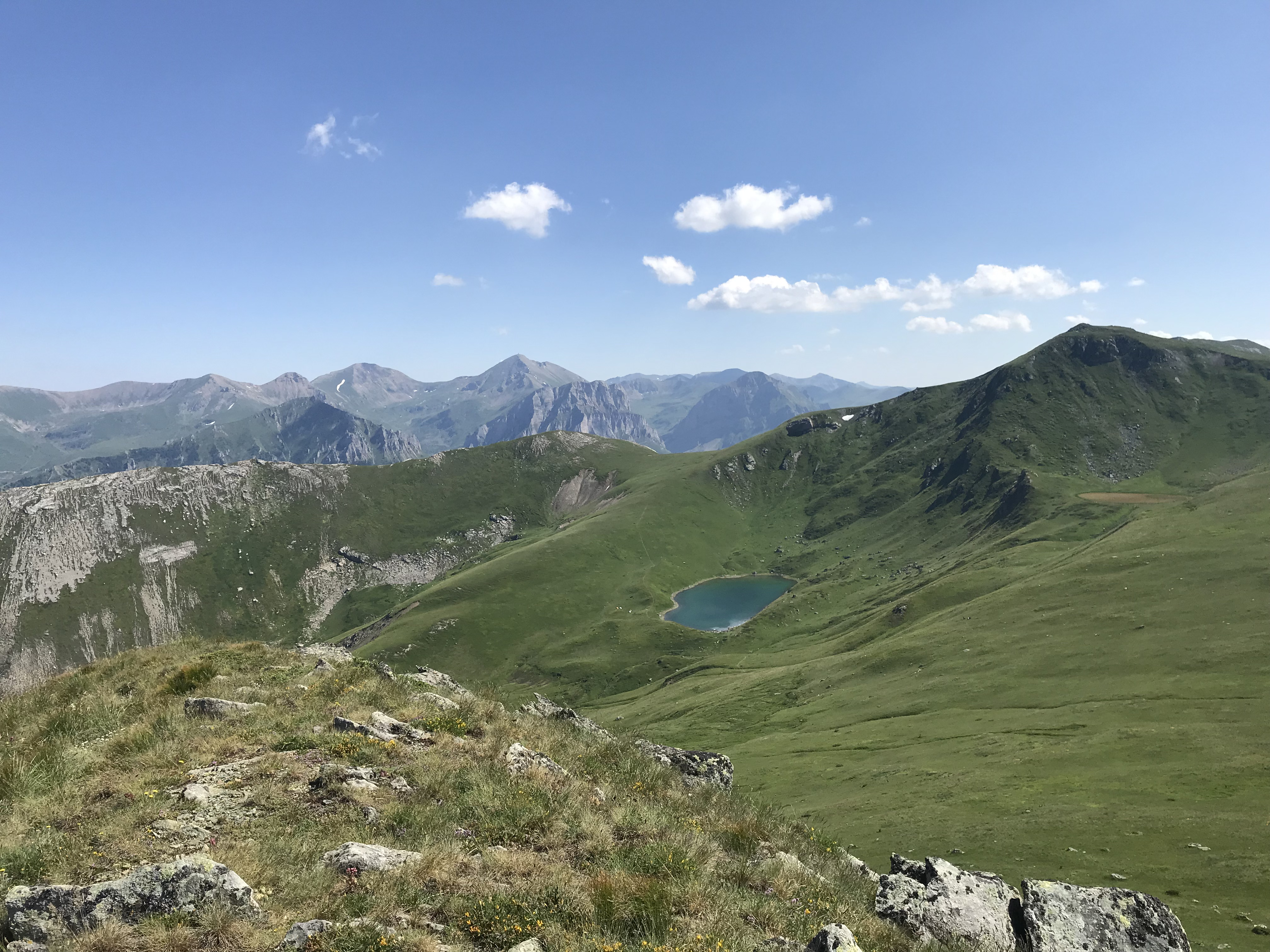 View on Karanikola lake from Karanikola summit